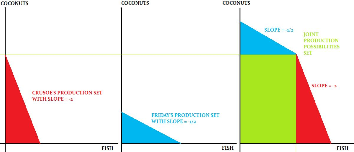 This diagram depicts the joint production possibilities set in the Robinson Crusoe economy when there are two workers in the economy - Crusoe and Friday.